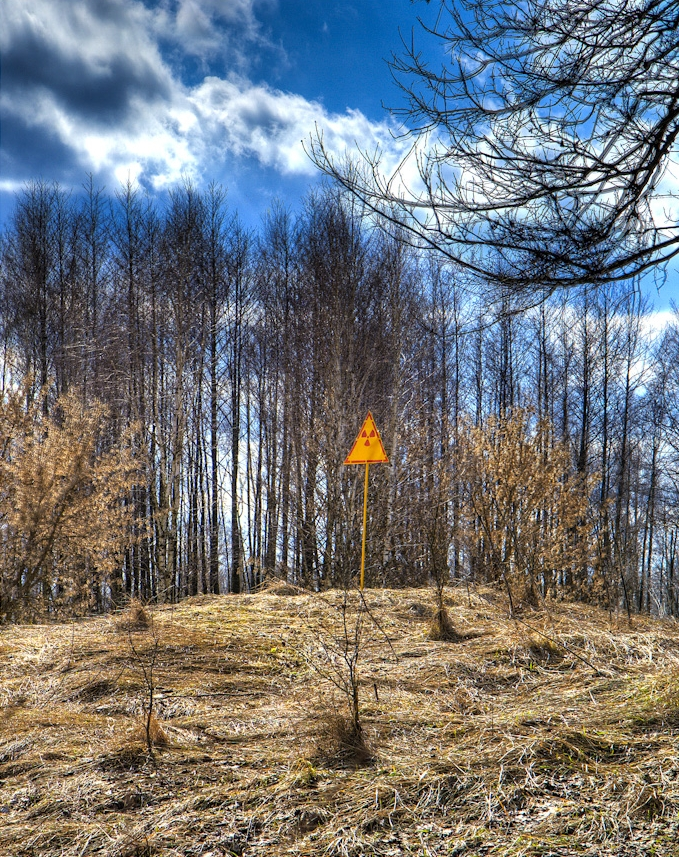 Radioactivity warning sign on a hill at the east end of Red Forest For the story behind the picture: Chernobyl Journal on [1]